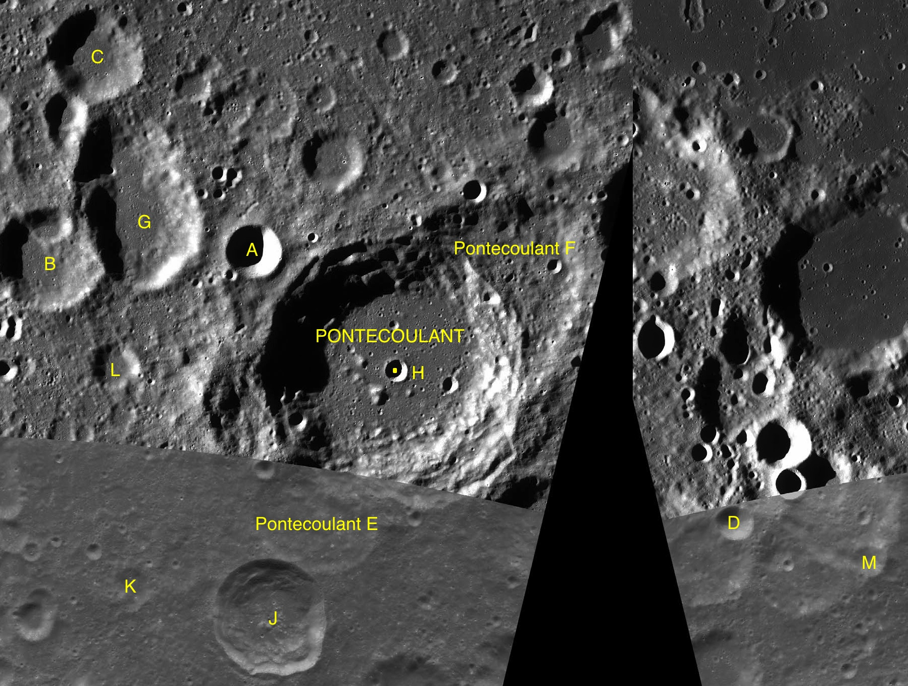 Parts of the charts LAC-128, LAC-129 used for the presentation